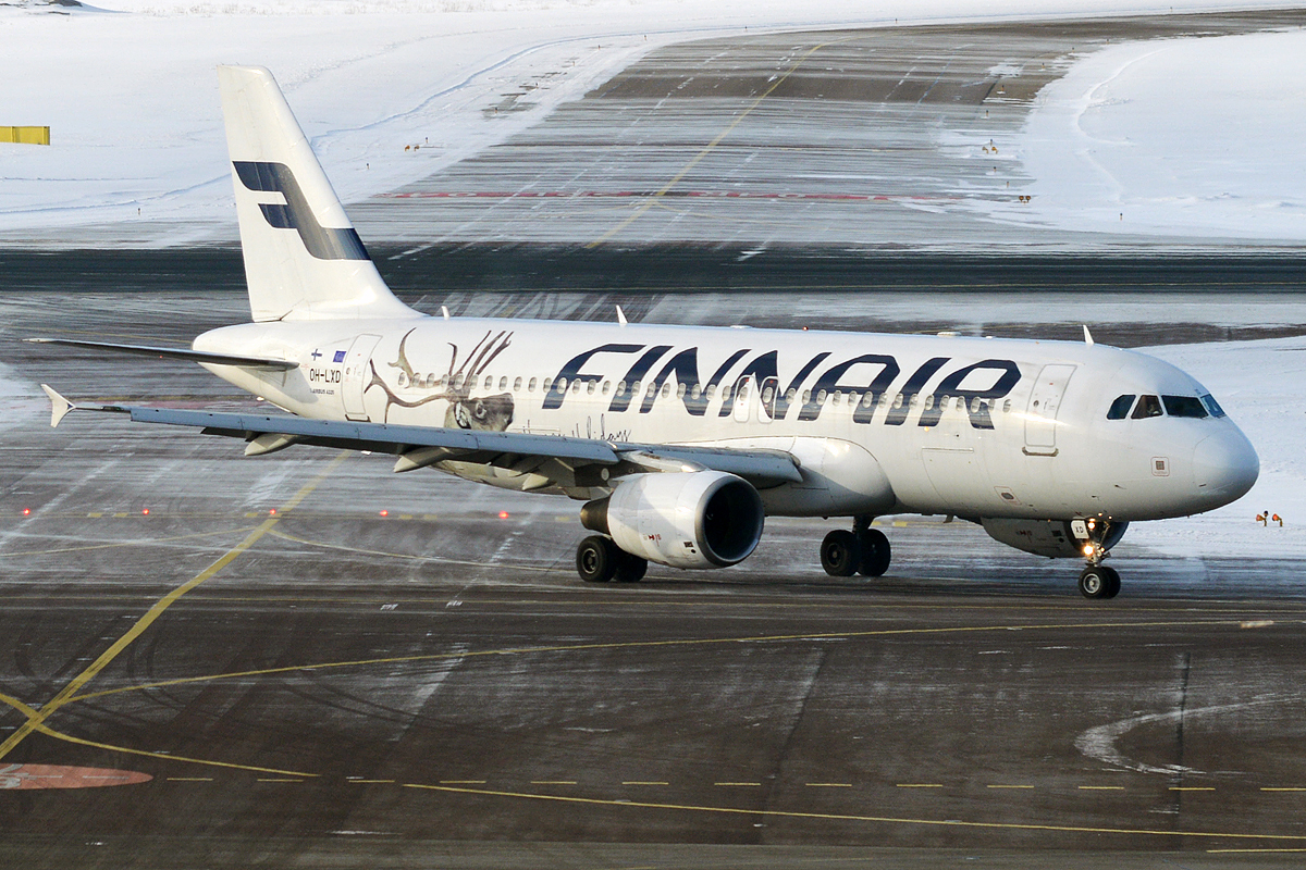 Finnair (Christmas Livery), OH-LXD, Airbus A320-214